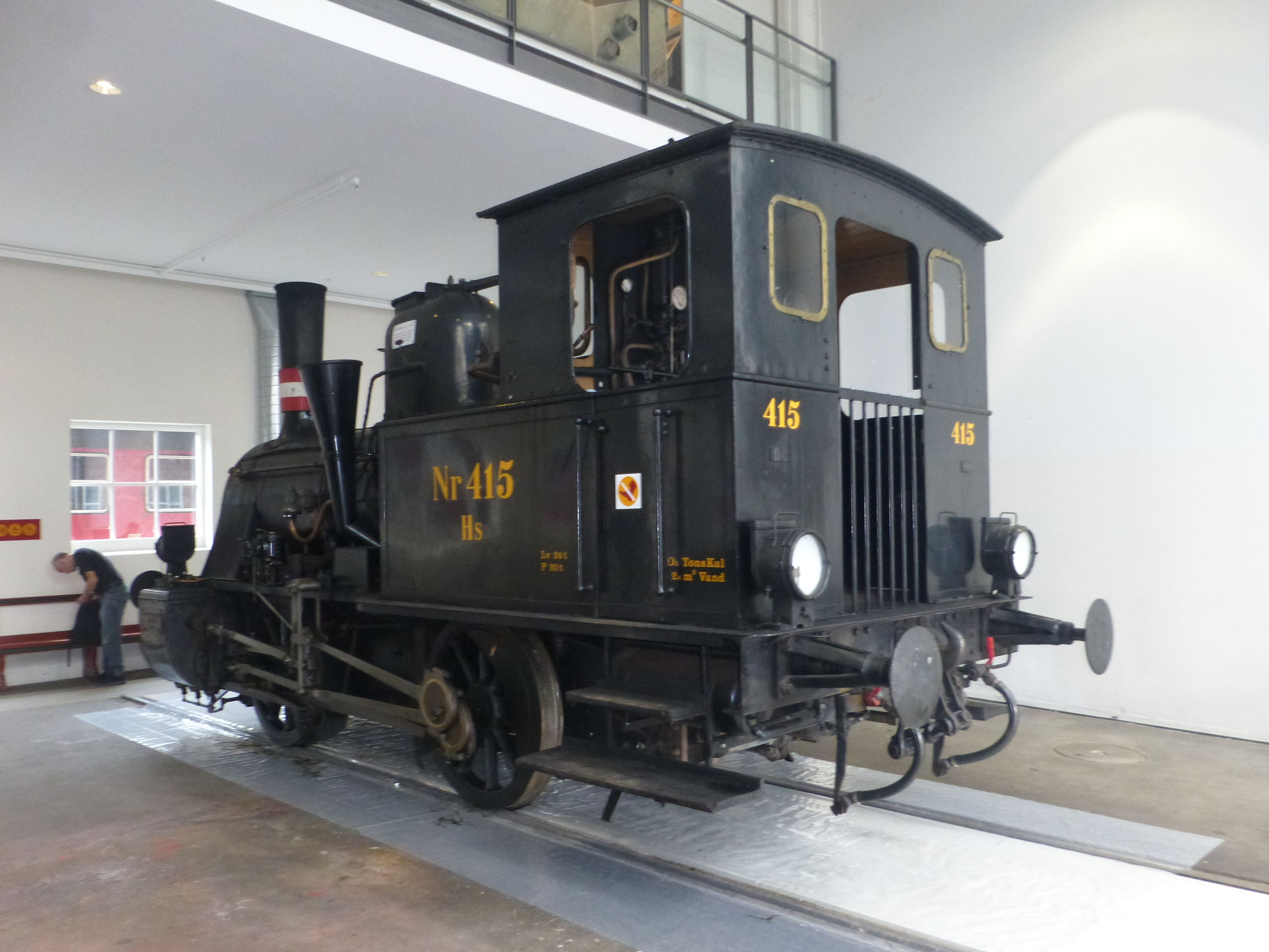 The steam locomotive DSB HS 415 from 1901 in Danmarks Jernbanemuseum in Odense in Denmark.